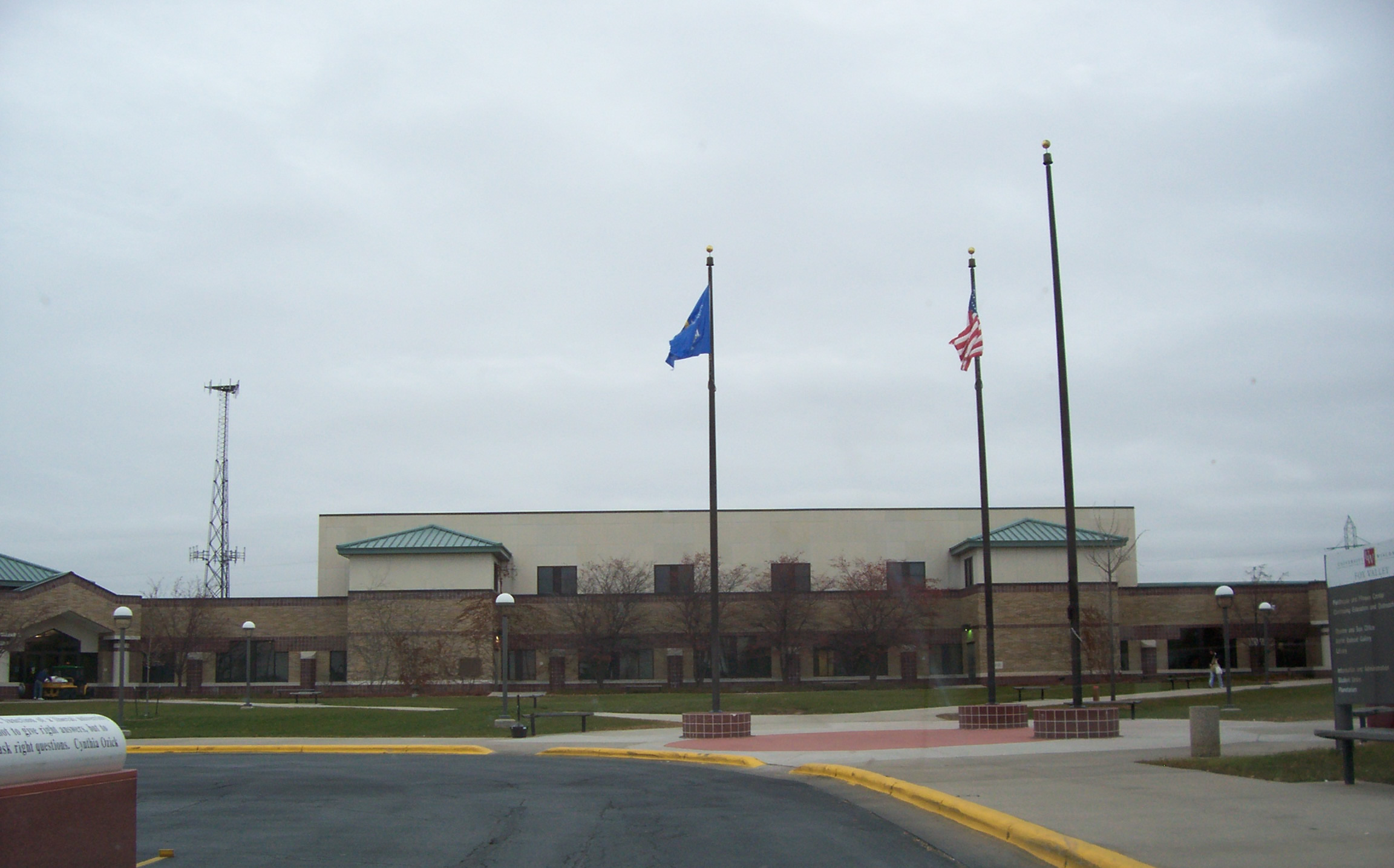 The pedestrian mall at the University of Wisconsin-Fox Valley in Menasha, Wisconsin, USA.